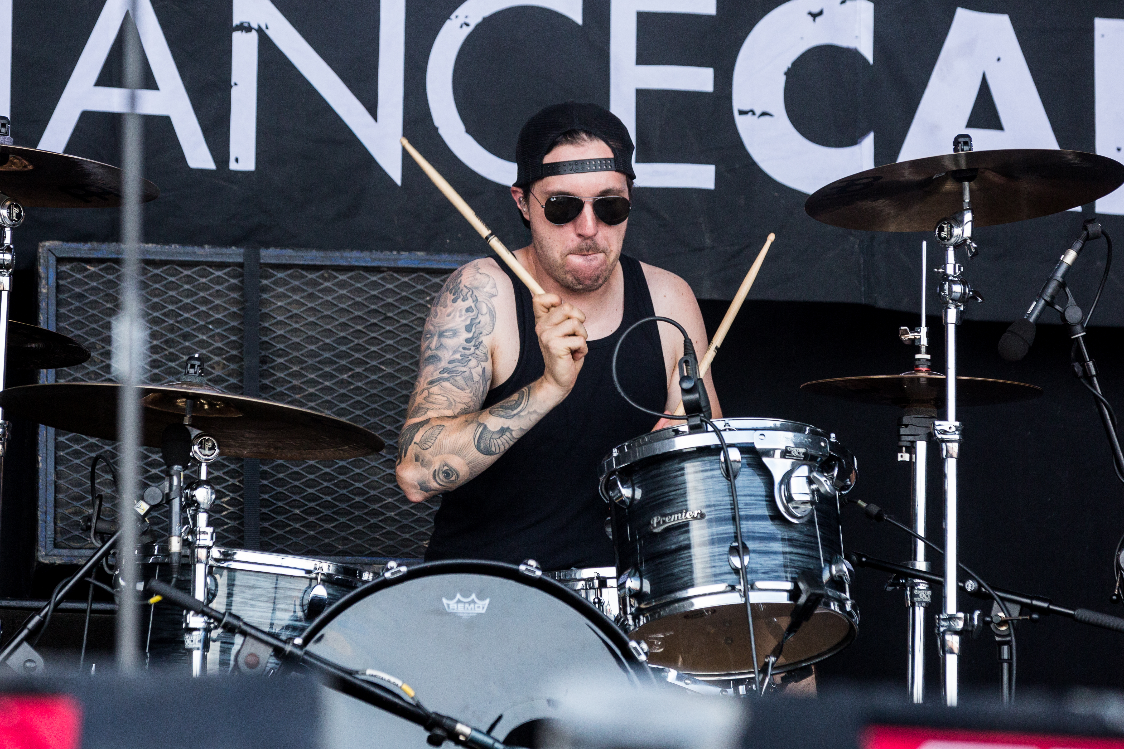 The German post-rock band Long Distance Calling at the Summer Breeze Open Air 2017 in Dinkelsbühl/Germany.